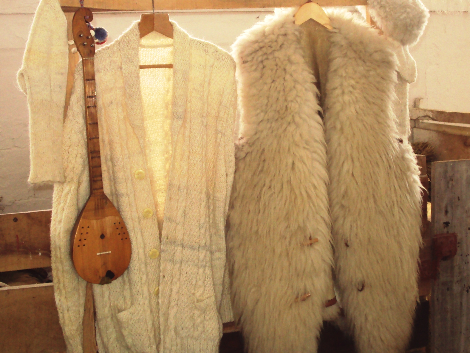 Clothes from wool of sheep breed from region of Lika, Croatia - Agriculture Fair in Bjelovar, Croatia